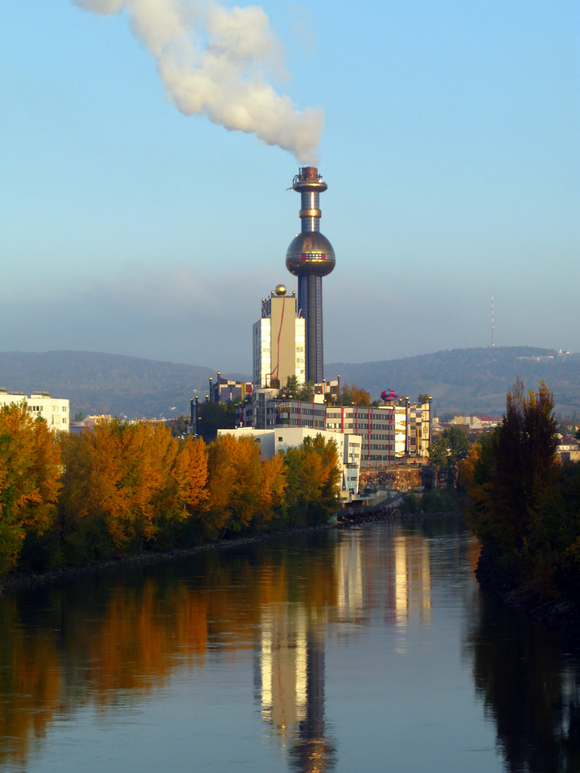 South view of District Heating Plant Spittelau, Vienna / Austria / European Union. Exterior design by Friedensreich Hundertwasser. Morning picture at low sun angle.